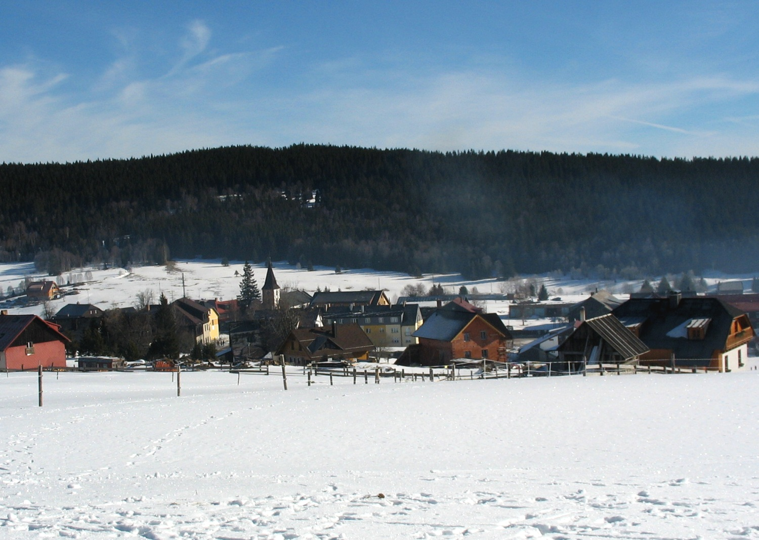 The village Kvilda in the Šumava Mts., Czech republic